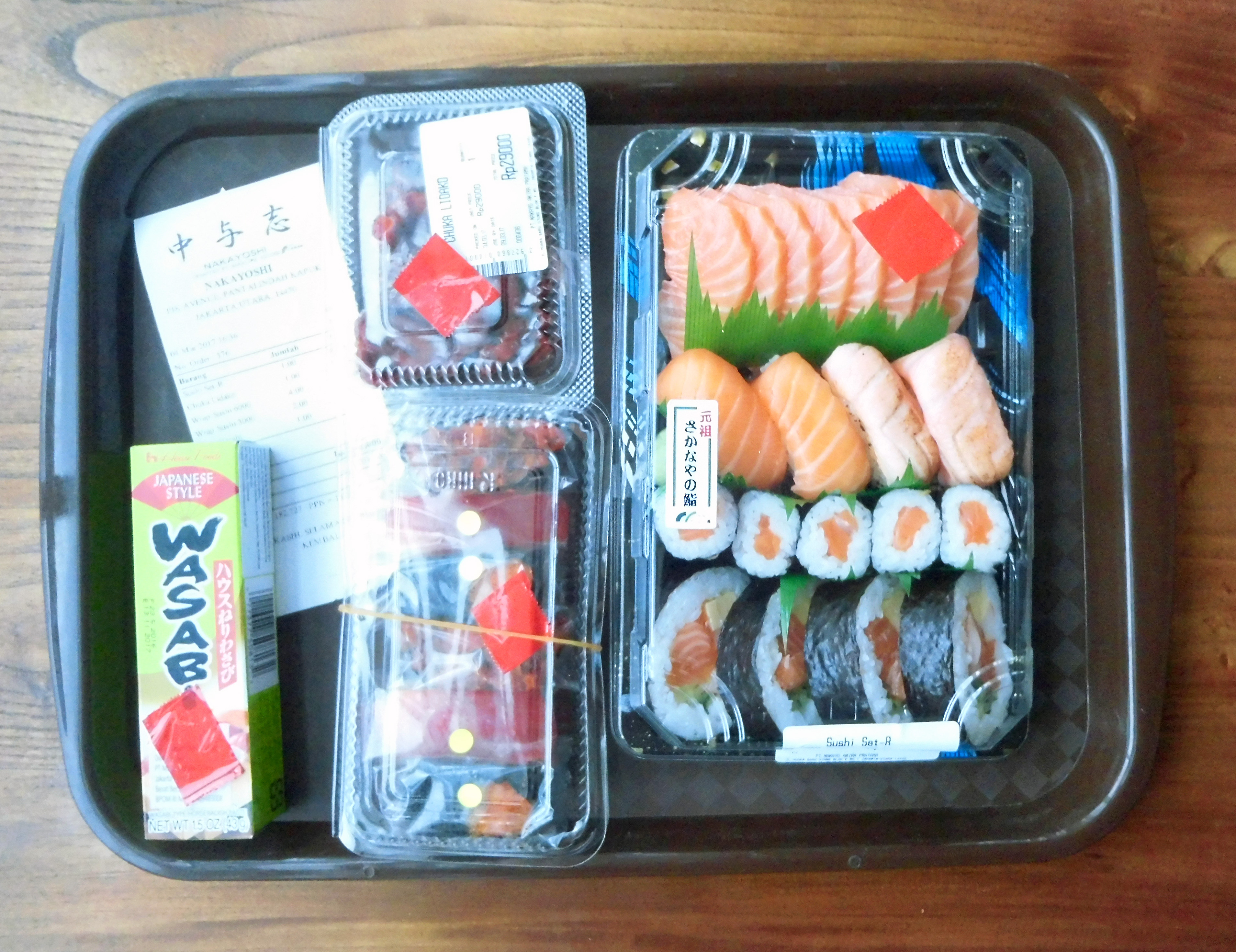 Sushi Bento in Aeon Mall BSD City, Tangerang, Indonesia.